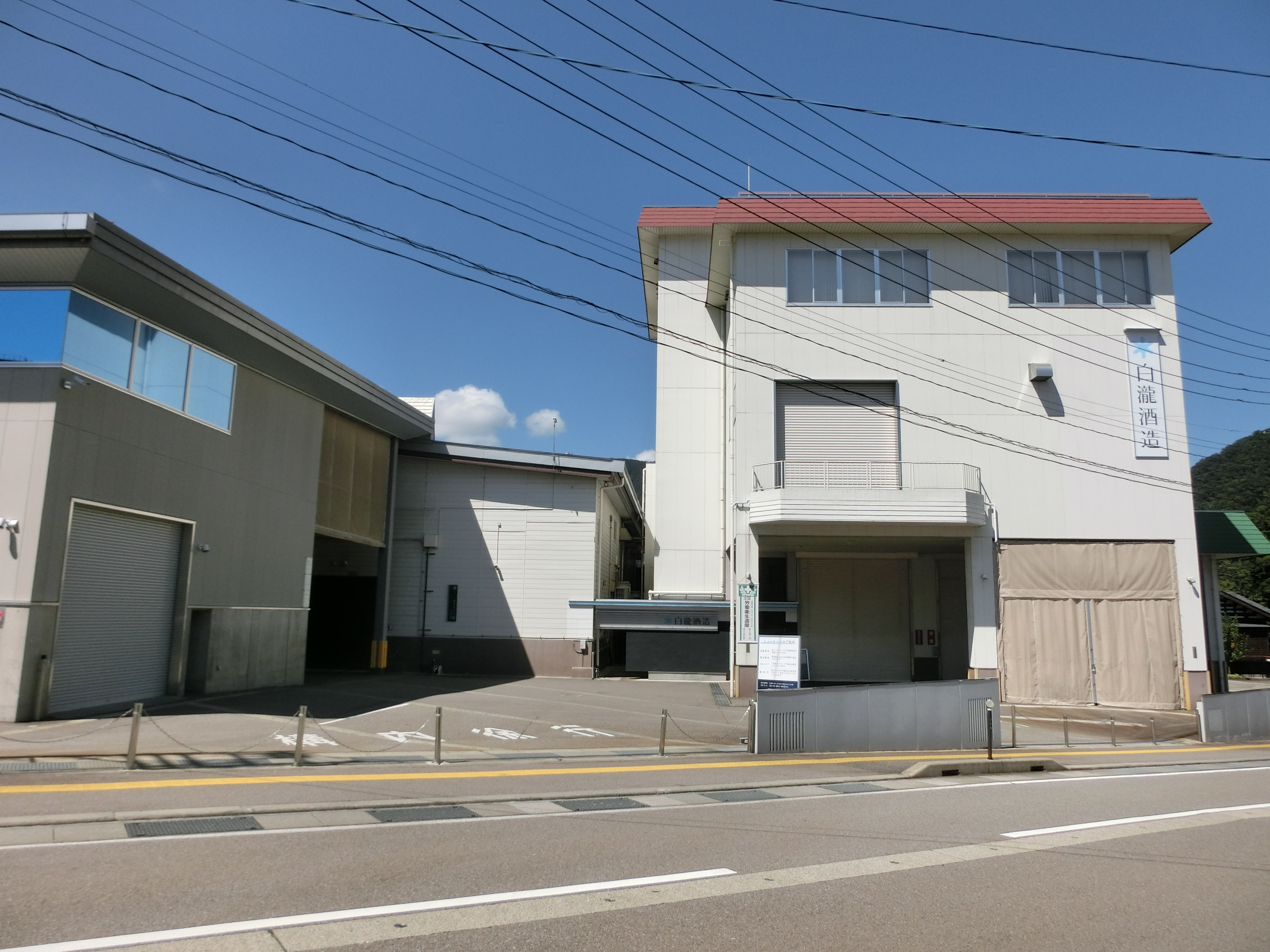 Shirataki Sake Brewery Head Office